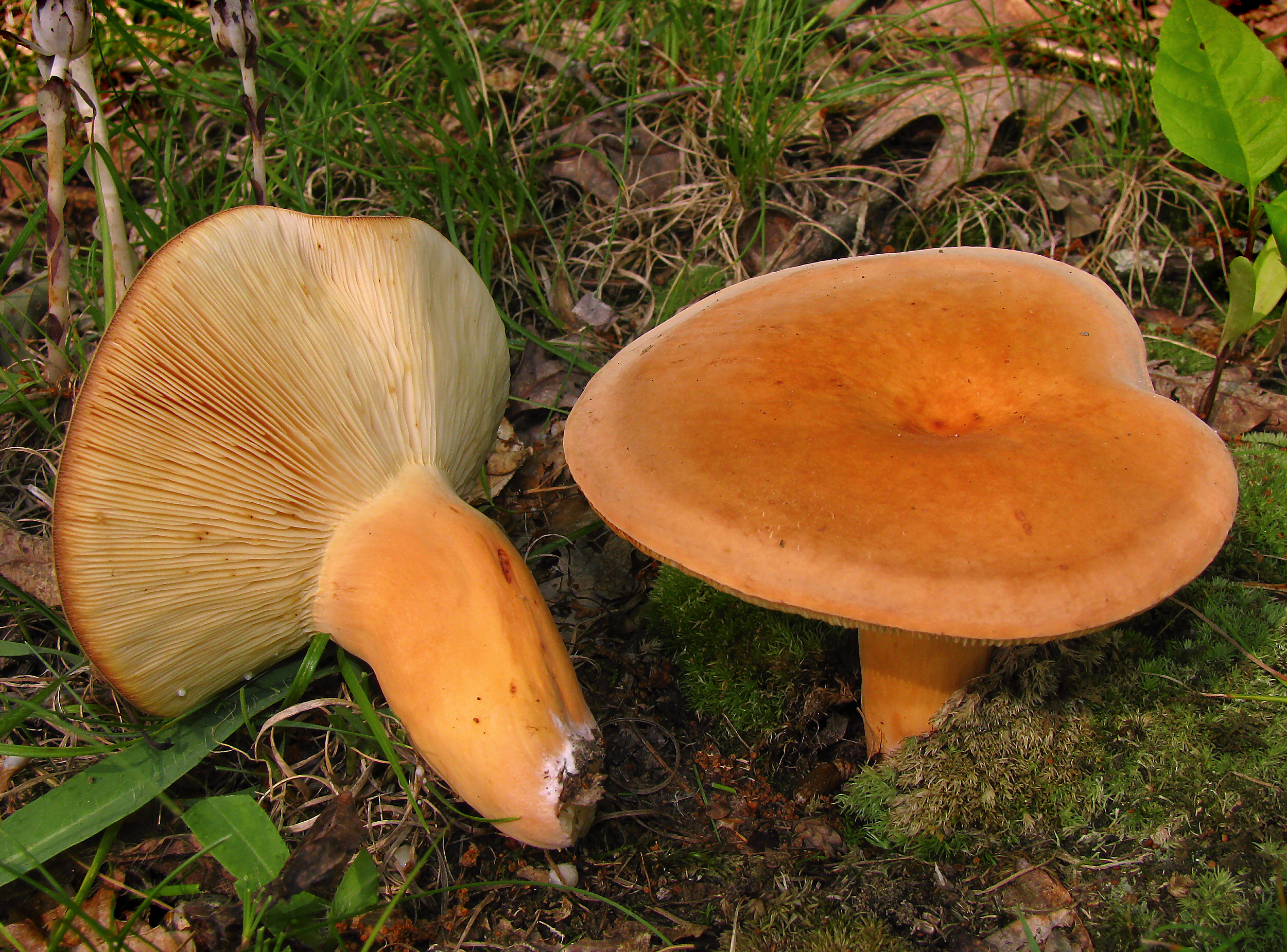 Lactarius volemus (Fr.) Fr. Location: Rest Area, north bound, State Highway 33, between Pomeroy and Athens, Ohio, USA For more information about this, see the observation page at Mushroom Observer.